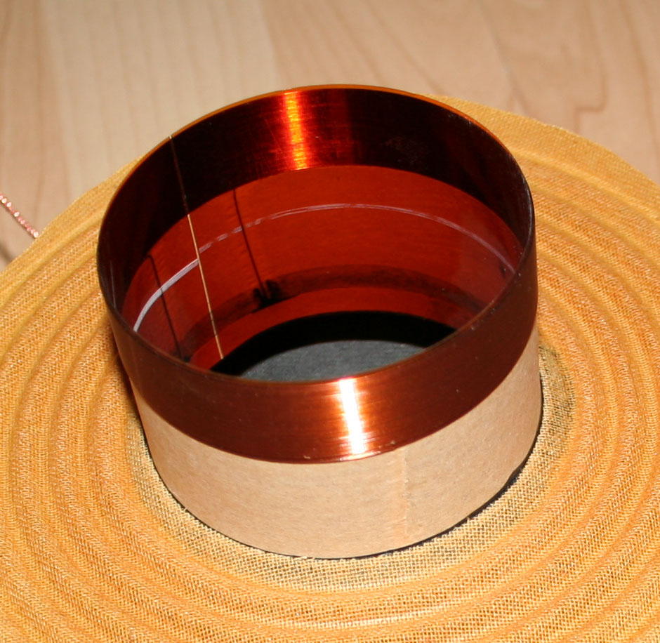 Voicecoil of large speaker.